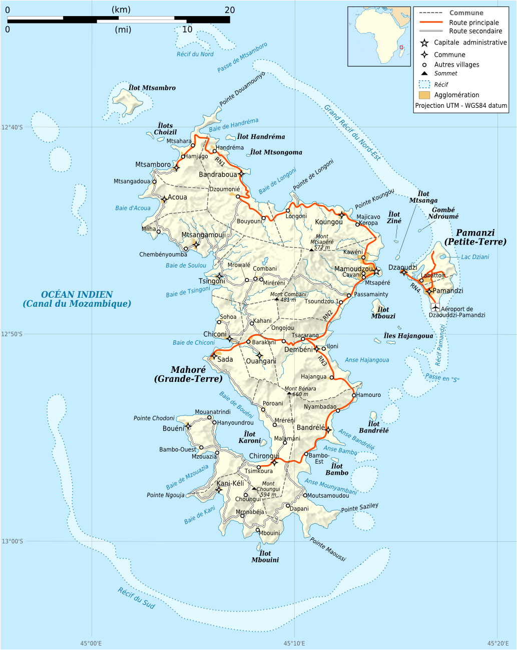 Road map of Mayotte in French. Use the SVG version for translations and alterations, then update this one.